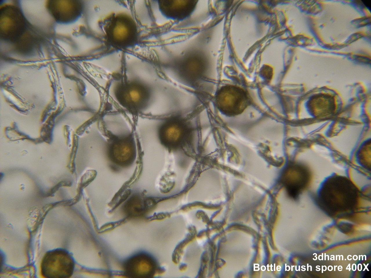 Bottle brush (horsetail fern) spores, magnified 400 times